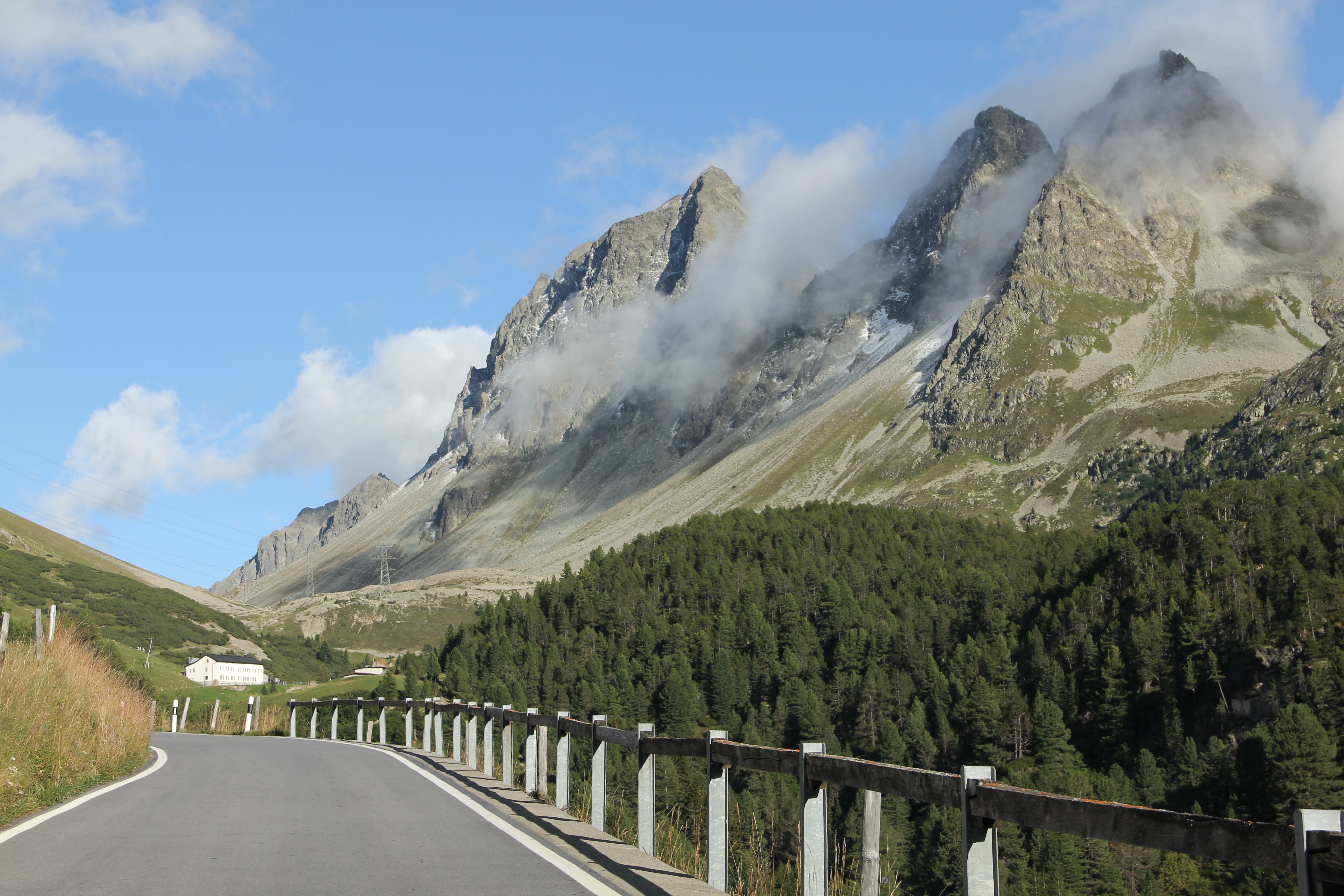 Albula Pass in Swiss canton of Grissons.